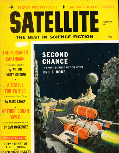 Cover, Satellite Science Fiction, February 1959